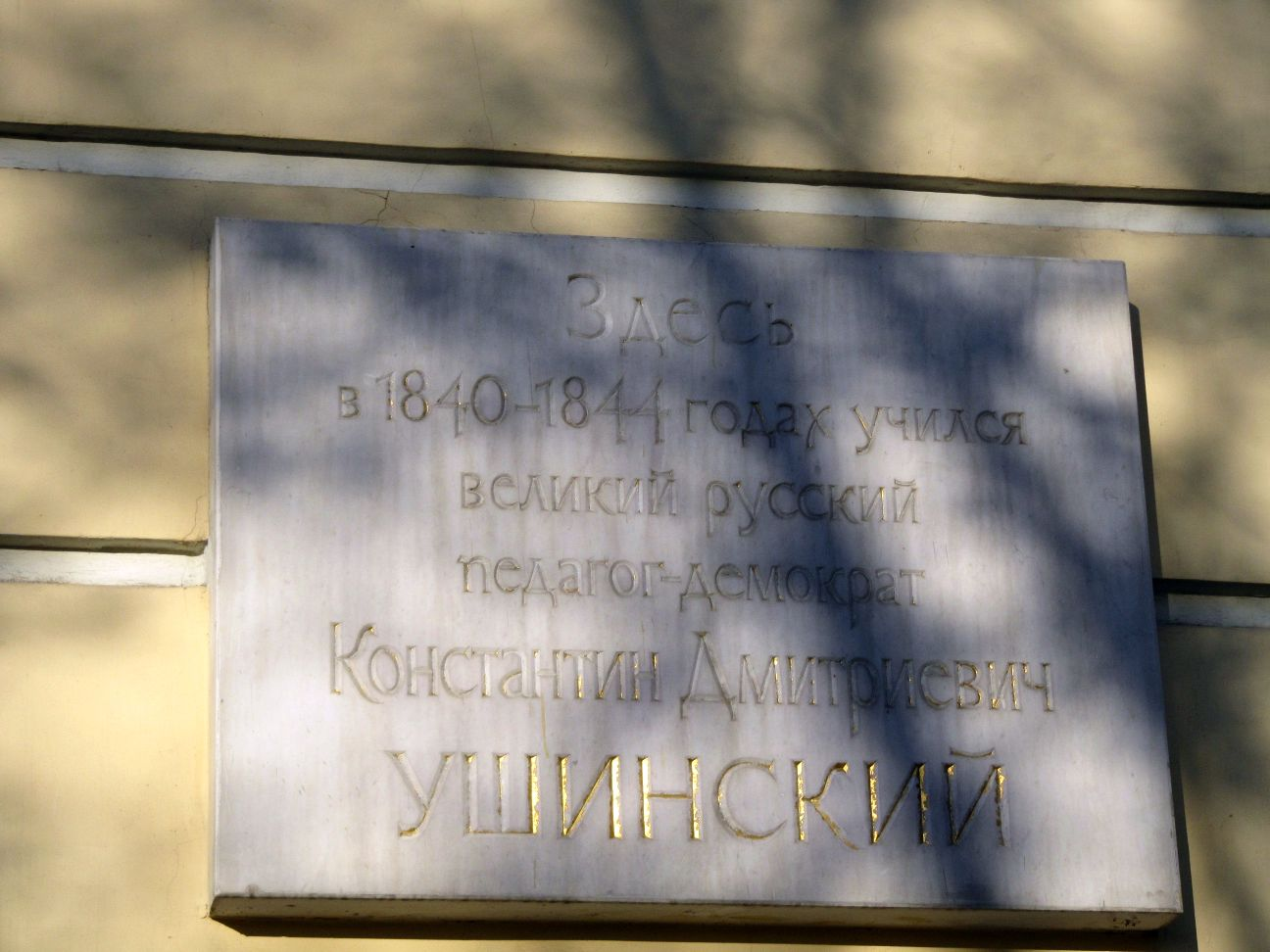 Commemorative Plaque to a famous Russian pedagogue Constantin Dmitrievich Ushinsky, who studied at Moscow University